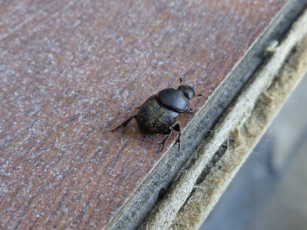 Onthophagus vacca. Found in Rīga town, Latvia